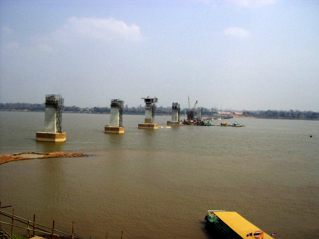 Mukdahan Friendship Bridge II under construction